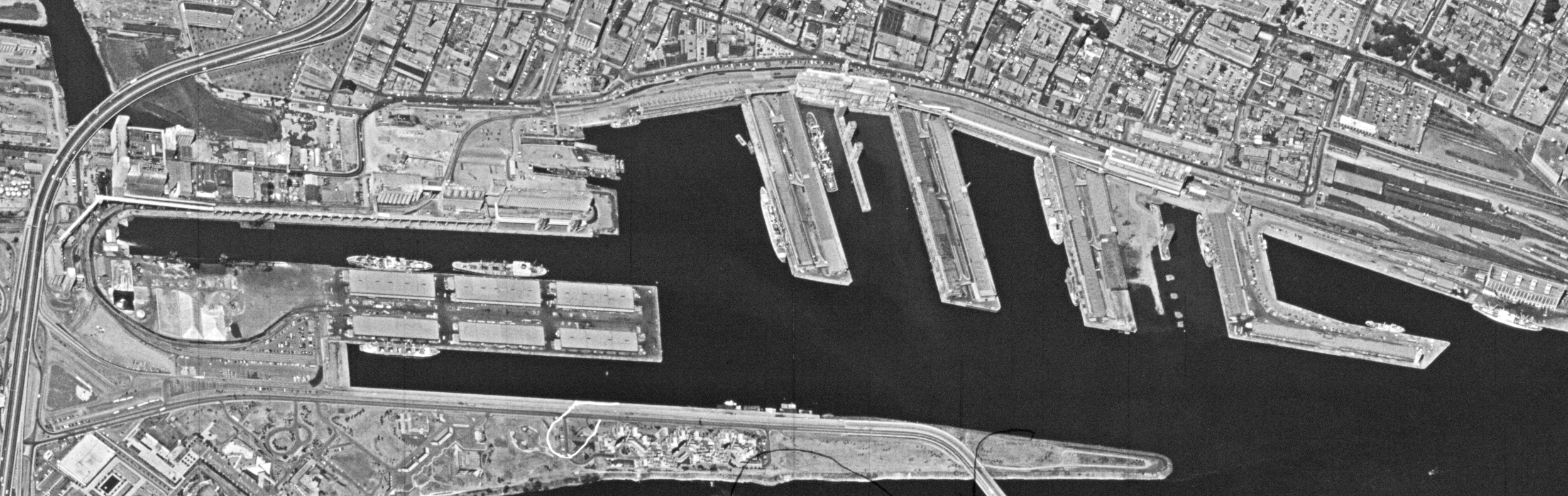 The old port of Montreal, Canada, as photographed by a KH-9/HEXAGON satellite during mission 1201.